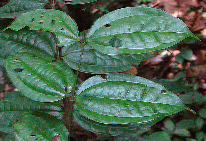 Strychnos ignatii